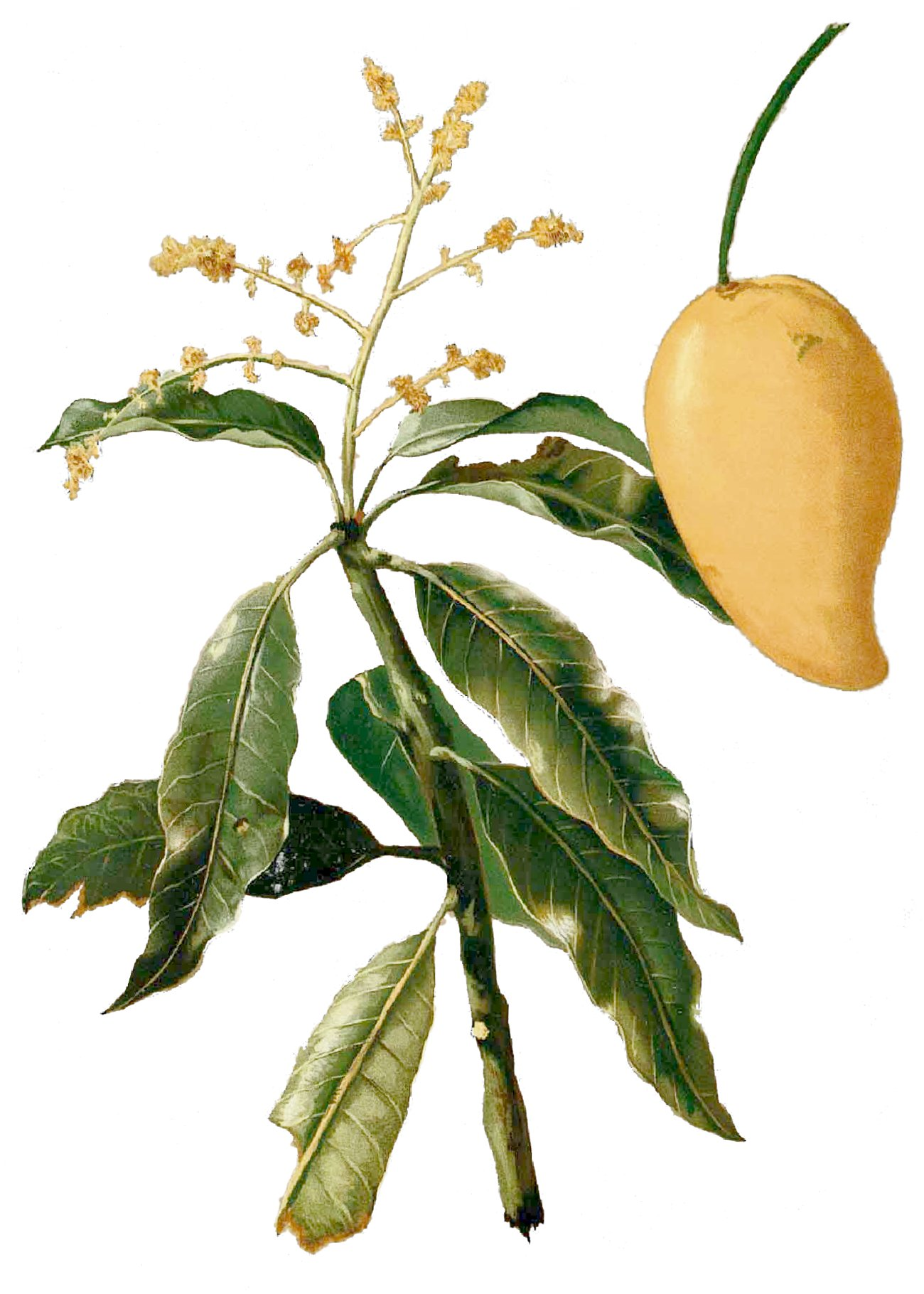 Mangifera sylvatica Plate from book